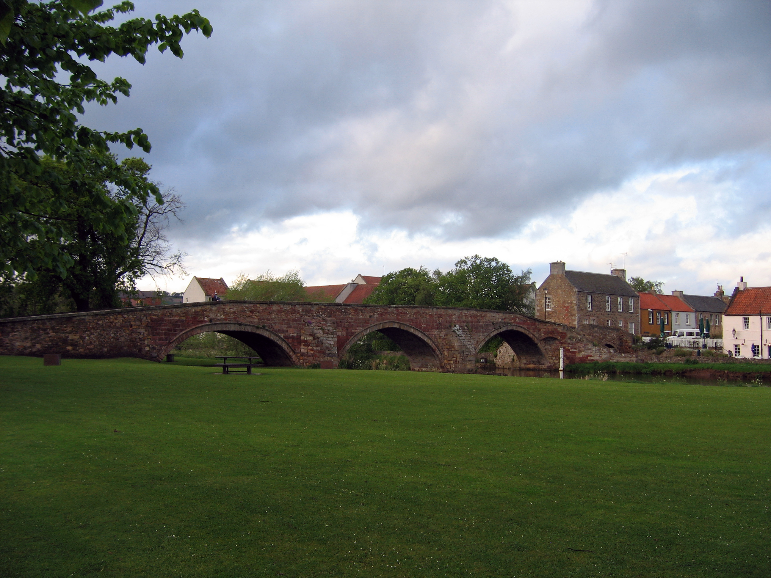 Nungate Bridge, Haddington, East Lothian, Scotland